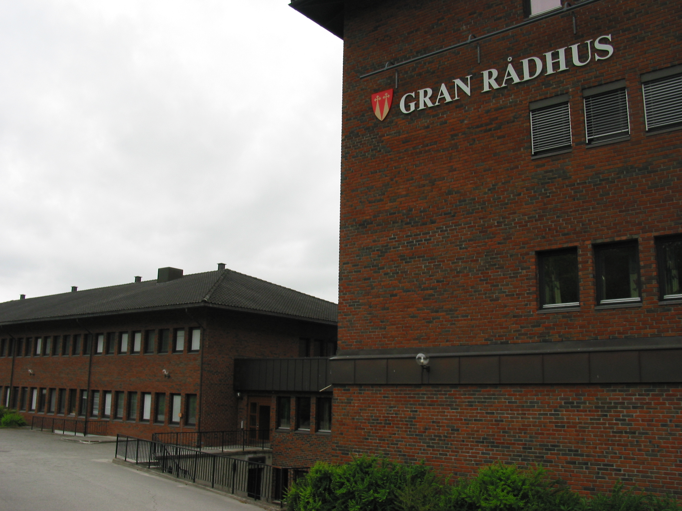 Gran town hall, in the village of Jaren. June 2008.